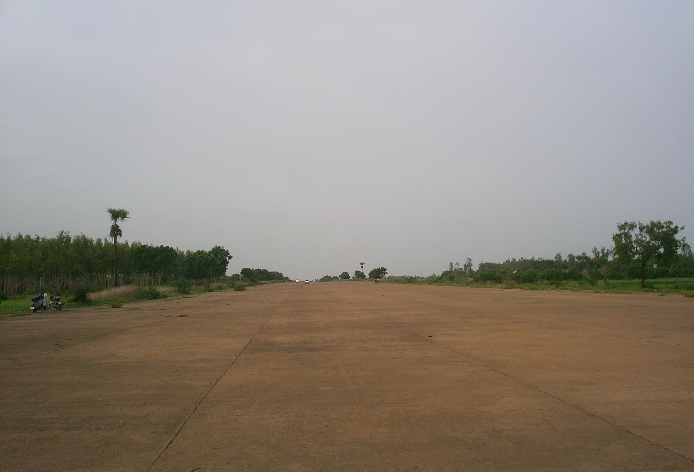 Tadepalligudem Airport Airstrip